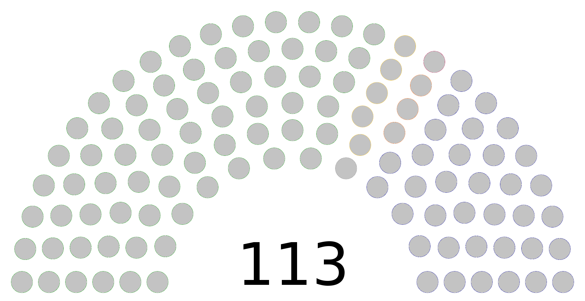 民主進步黨（） 中國國民黨（） 時代力量（） 親民黨（） 無黨團結聯盟（） 無黨籍（）